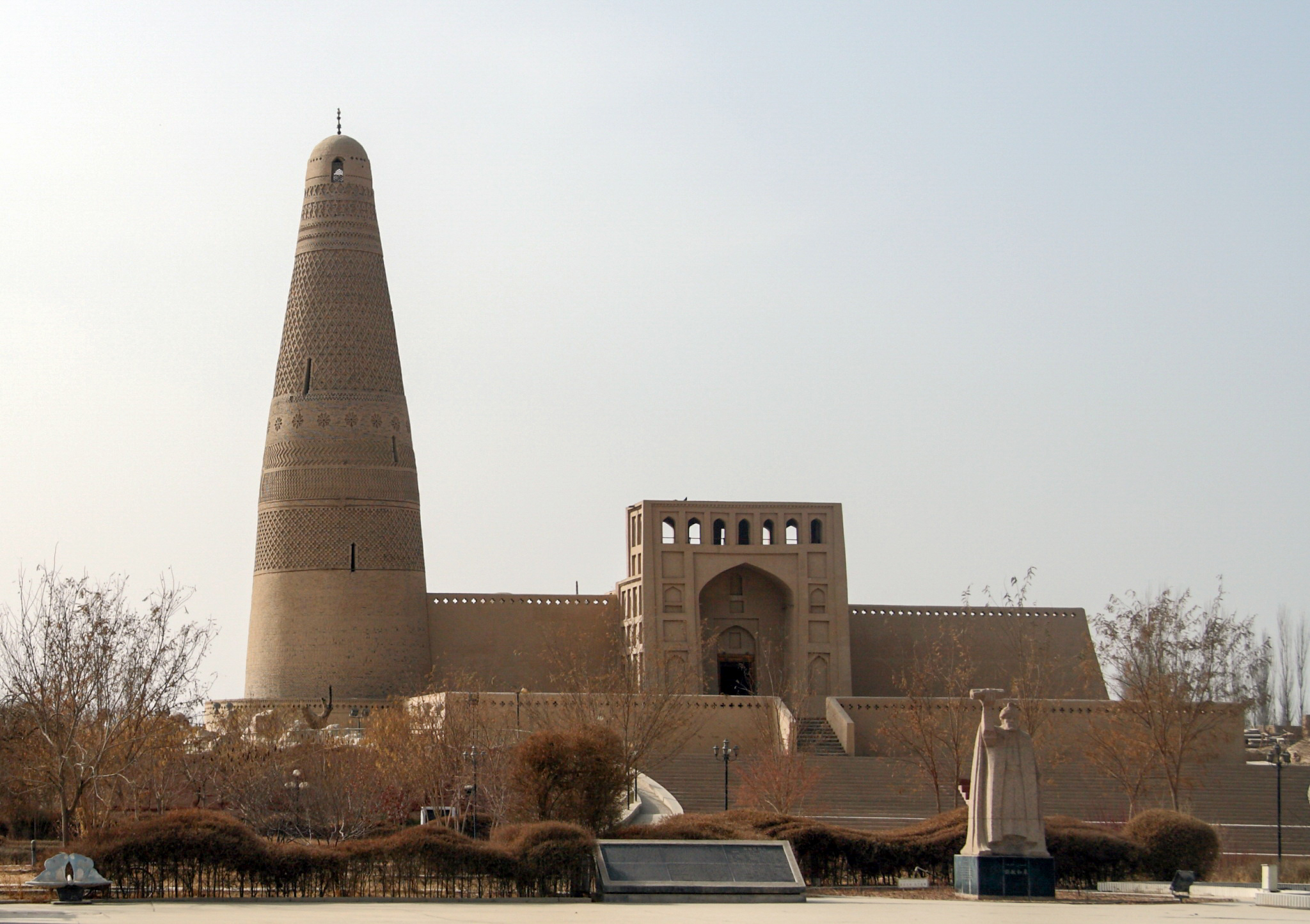 Emin minaret and mosquee (Su Gong Tower)